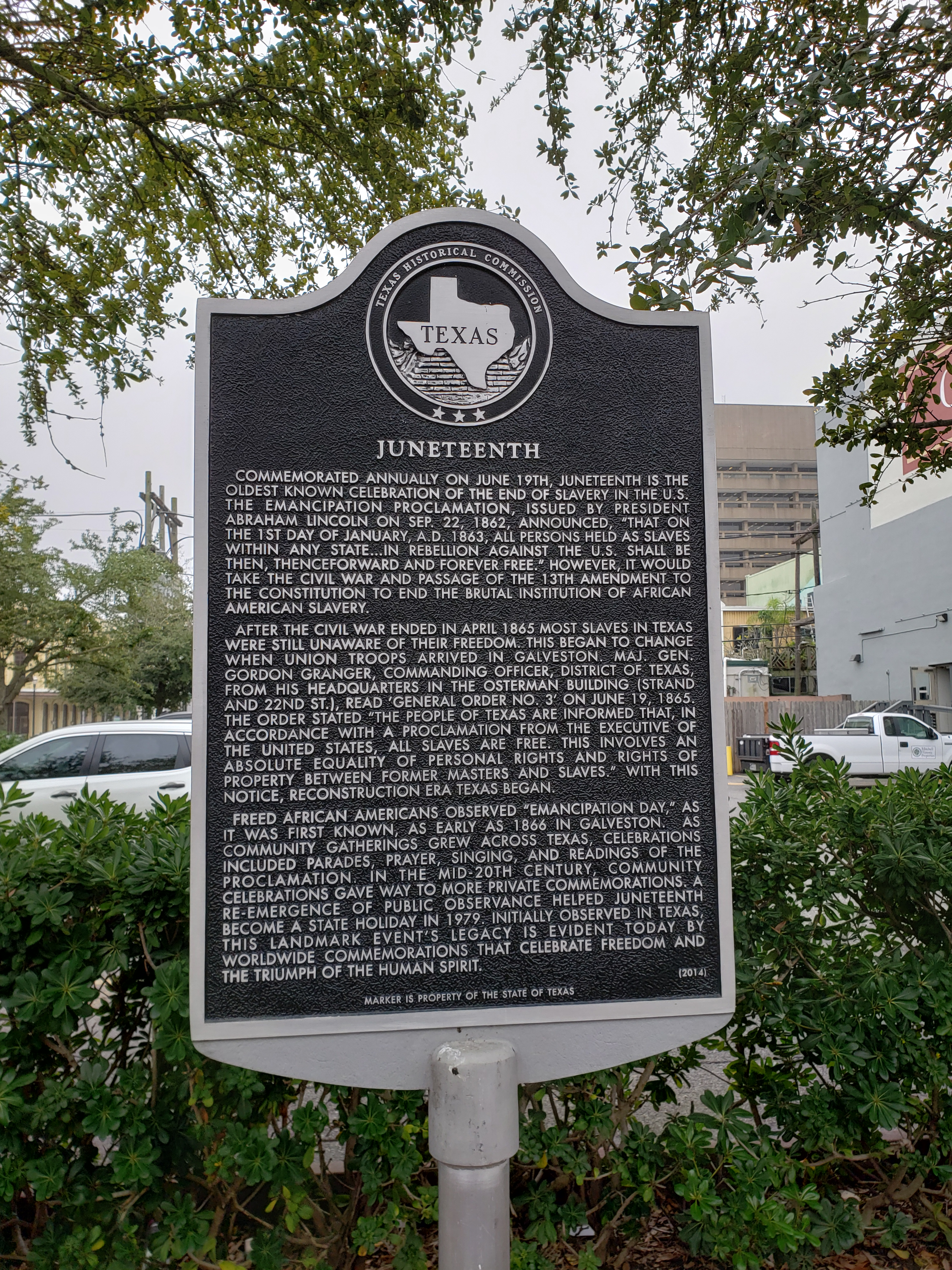 Commemorative plaque at corner of Strand Street and 22nd Street in Galveston, Texas where General Order No. 3 was issued from Union Army headquarters at the since demolished Osterman building on Monday, June 19, 1865. The plaque was erected by the Galveston Historical Foundation and Texas Historical Commission in June of 2014.